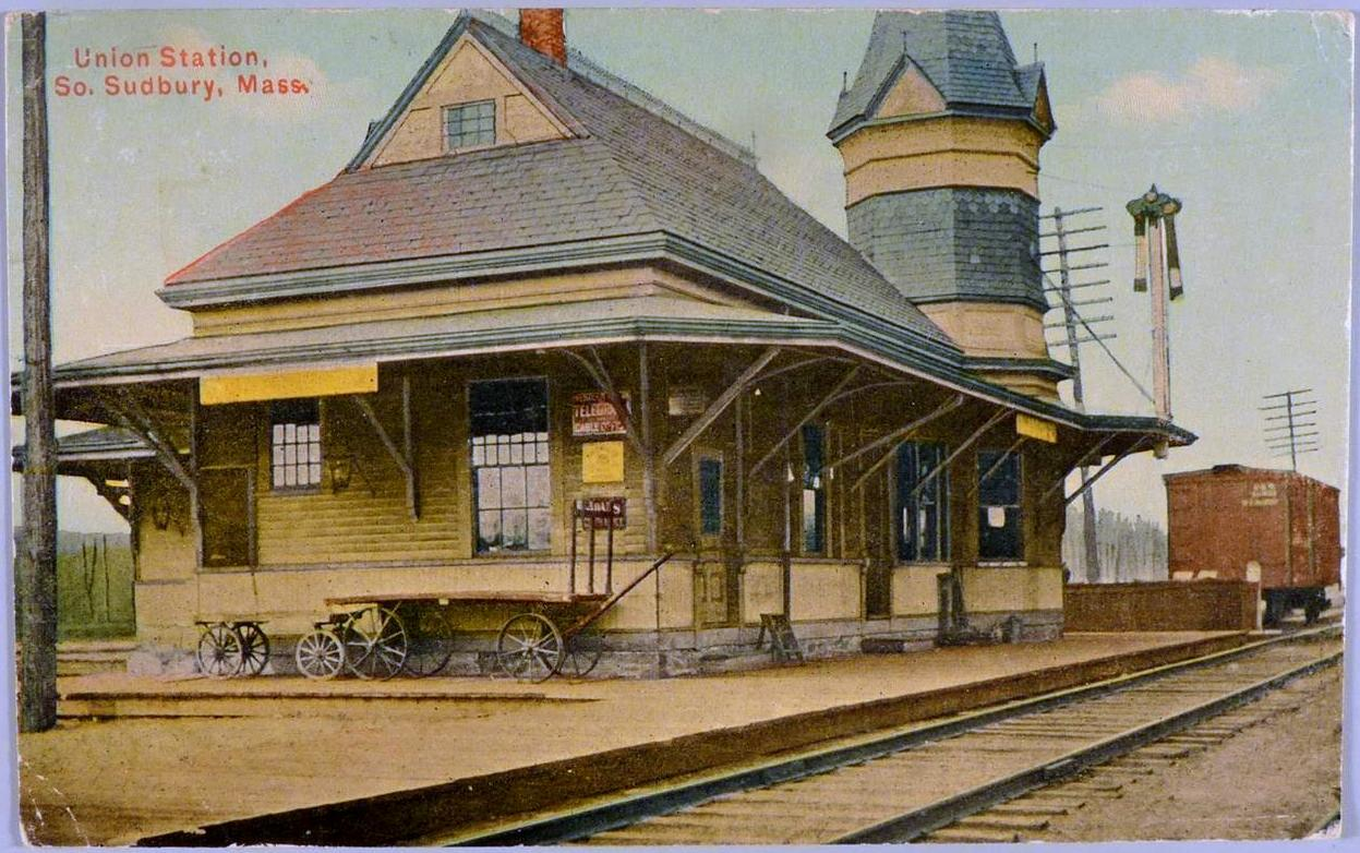 1911 divided back postcard of South Sudbury Union Station